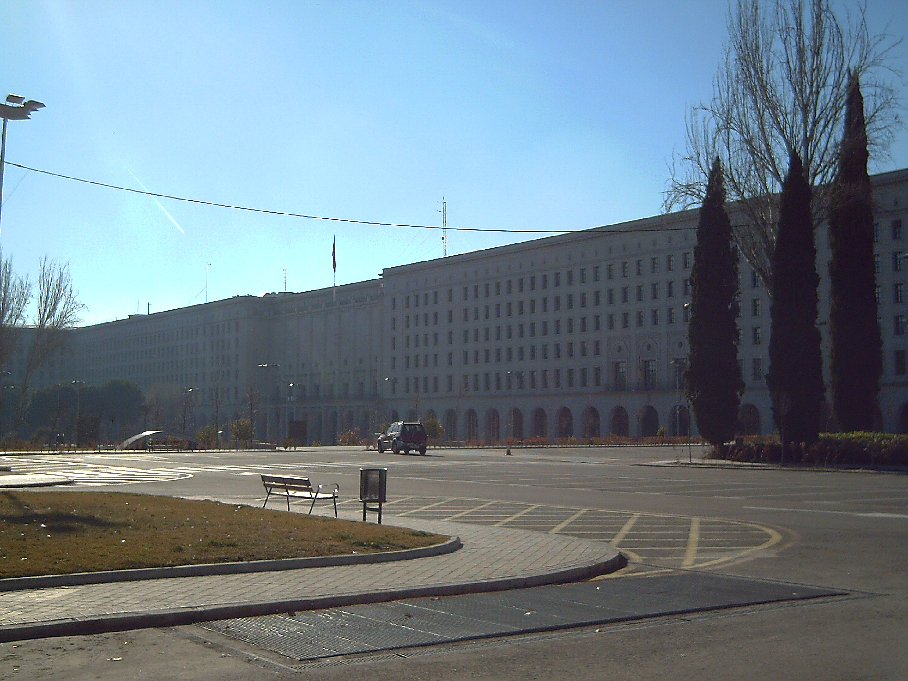 East façade of Nuevos Ministerios in Madrid (Spain).